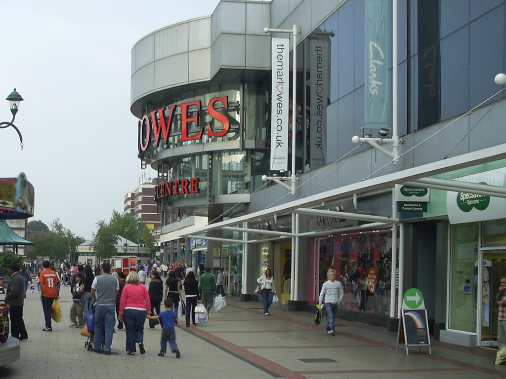 Marlowes shopping centre and pedestrianised high street, Hemel Hempstead, UK , September 2006.